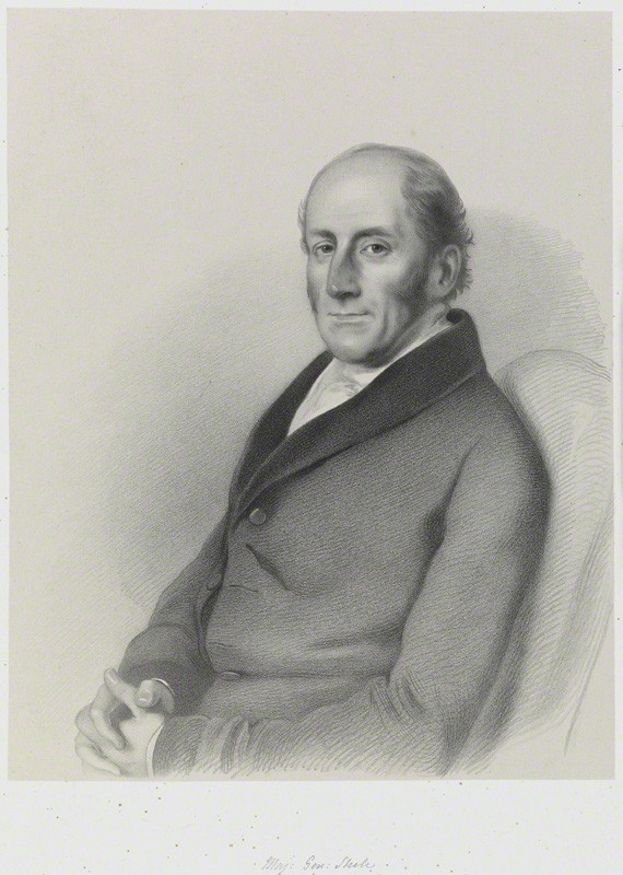 by Richard James Lane, lithograph, 1848